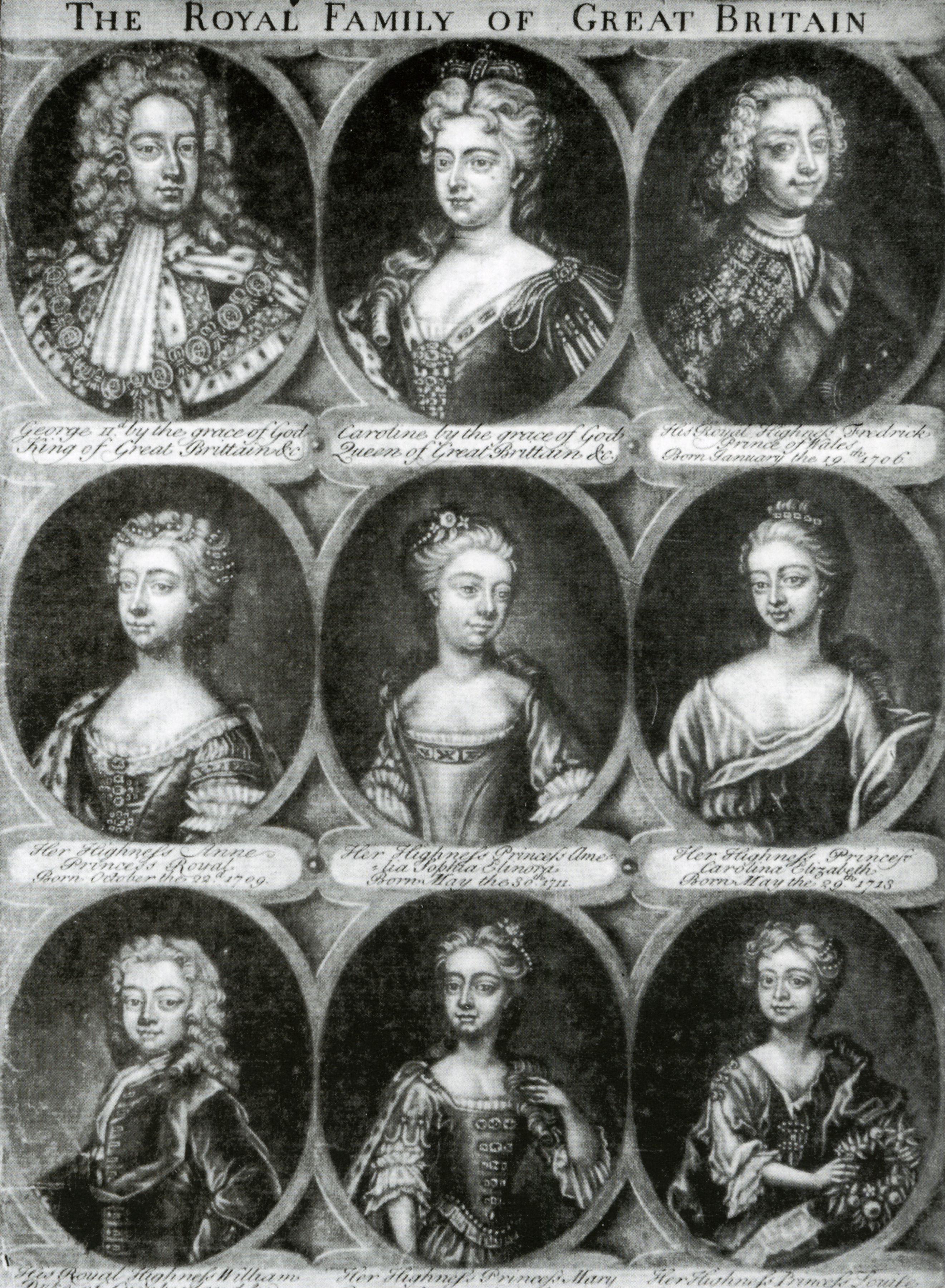 George II with his family. . Mezzotint, 34.5 x 25cm (13 1/2 x 9 3/4"). National Portrait Gallery (RN45127). National Portrait Gallery: NPG D3023 While Commons policy accepts the use of this media, one or more third parties have made copyright claims against Wikimedia Commons in relation to the work from which this is sourced or a purely mechanical reproduction thereof. This may be due to recognition of the "sweat of the brow" doctrine, allowing works to be eligible for protection through skill and labour, and not purely by originality as is the case in the United States (where this website is hosted). These claims may or may not be valid in all jurisdictions. As such, use of this image in the jurisdiction of the claimant or other countries may be regarded as copyright infringement. Please see Commons:When to use the PD-Art tag for more information.See User:Dcoetzee/NPG legal threat for original threat and National Portrait Gallery and Wikimedia Foundation copyright dispute for more information. This tag does not indicate the copyright status of the attached work. A normal copyright tag is still required. See Commons:Licensing.